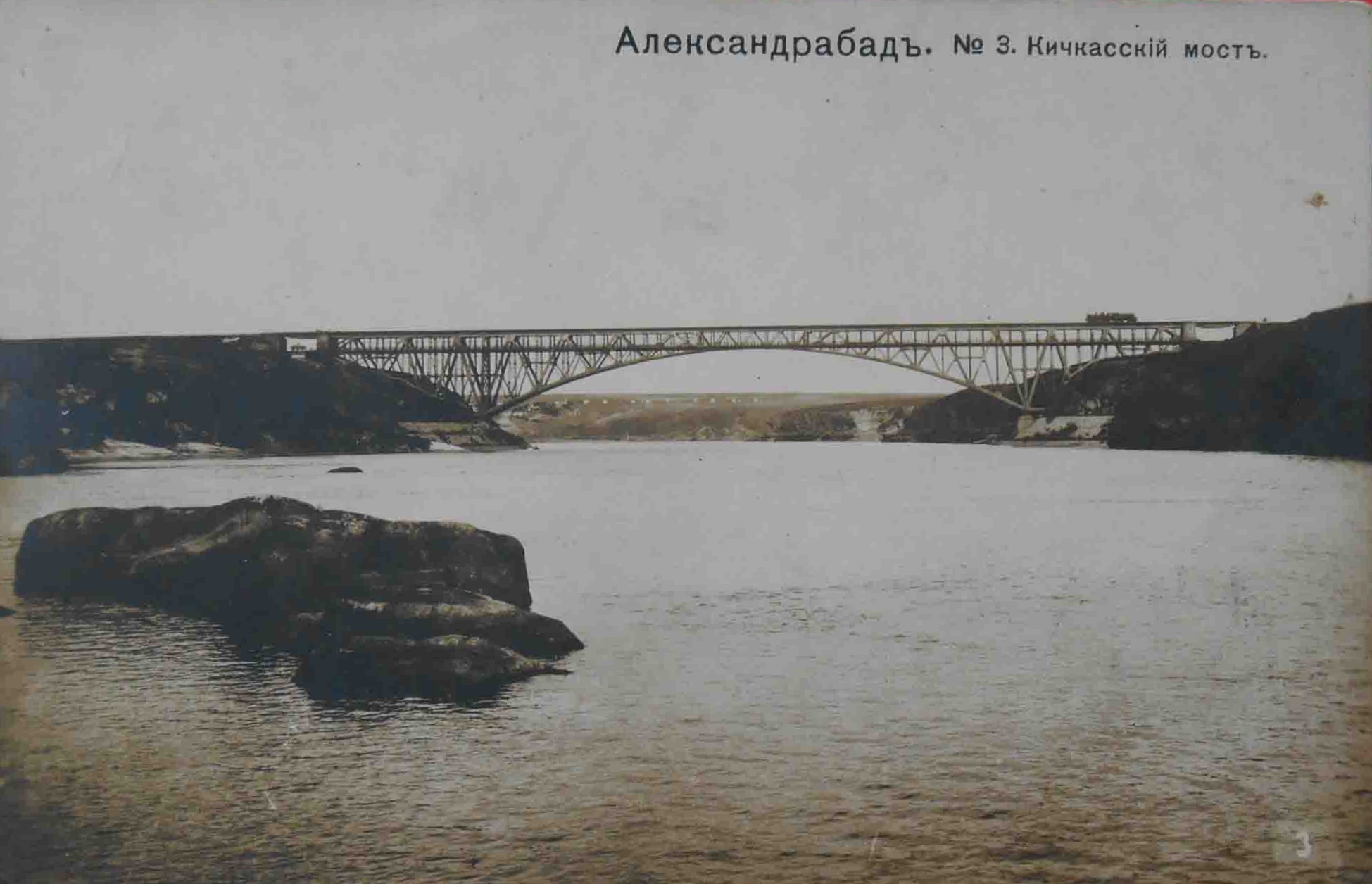 Aleksandrabad, Kitchkas bridge. Printed in I. A. Lavut trade house. Photographer - Kogan